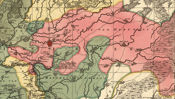 De Meierij Herentals (een gebied onder bestuur van een Meier) op een kaart van de 17e eeuw